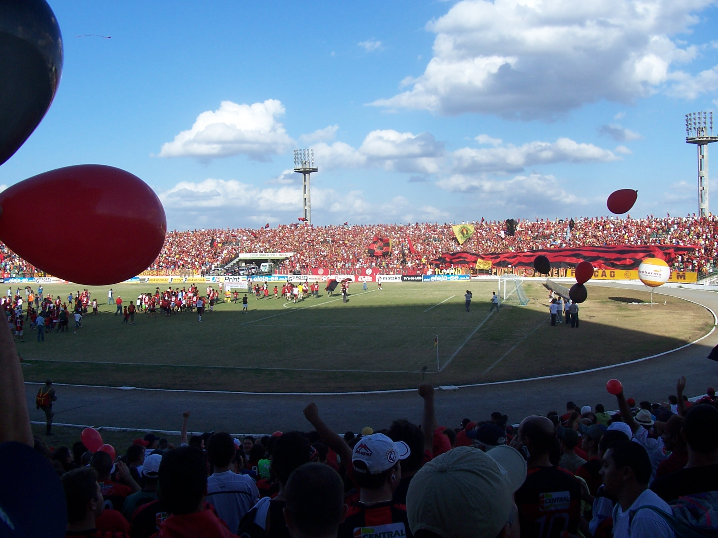 Let´s go Fox!!!